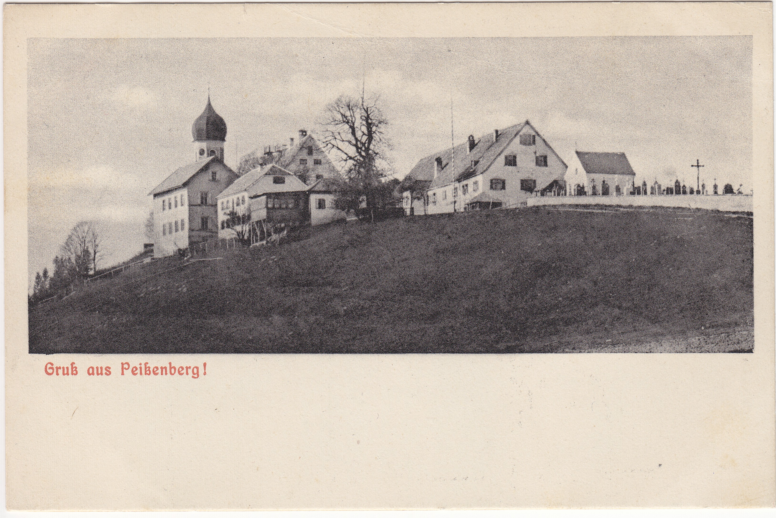 Old picture postcard of the summit of the Hohen Peissenberg